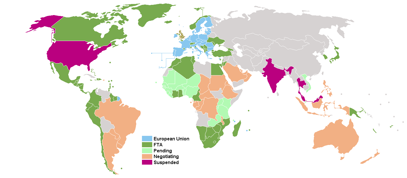 EU and free trade agreements countries EU member FTA Pending Negociating